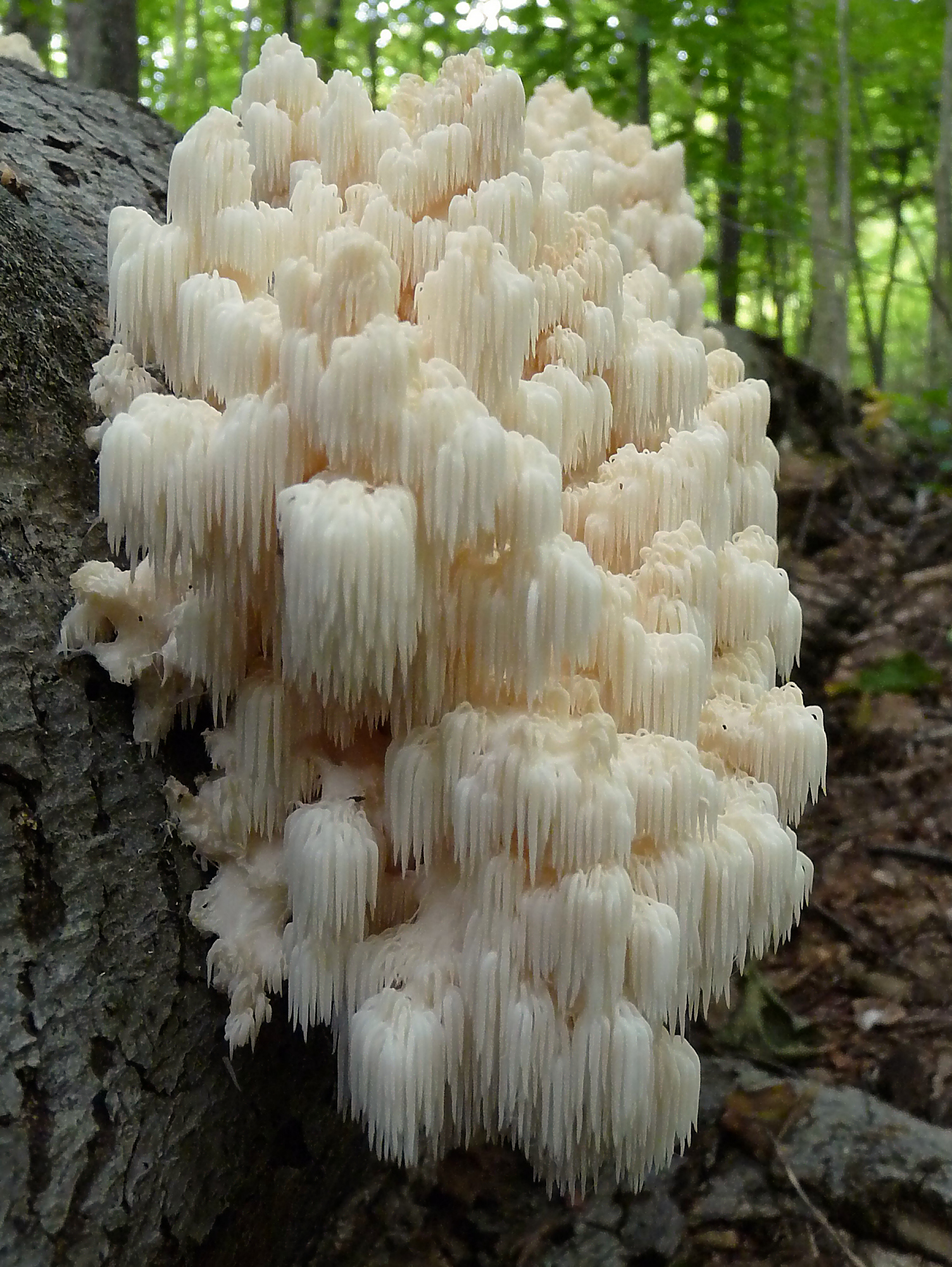 Hericium alpestre Pers. Location: Apsley, Ontario, Canada For more information about this, see the observation page at Mushroom Observer.